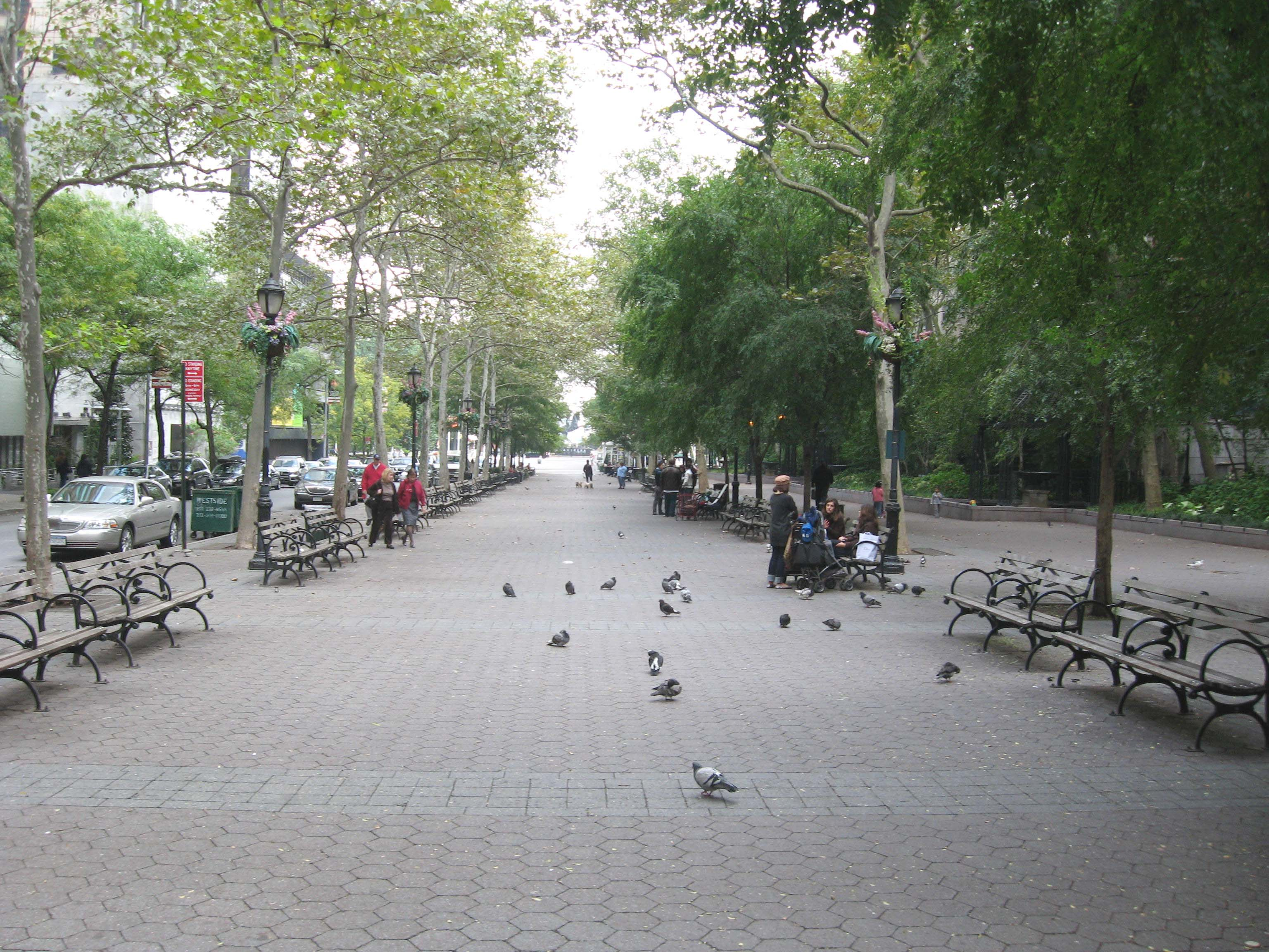 Looking east along Dag Hammarskjold Plaza on en:47th Street (Manhattan) on a cloudy afternoon.